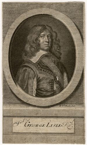 Sir George Lisle (c1610-1648)